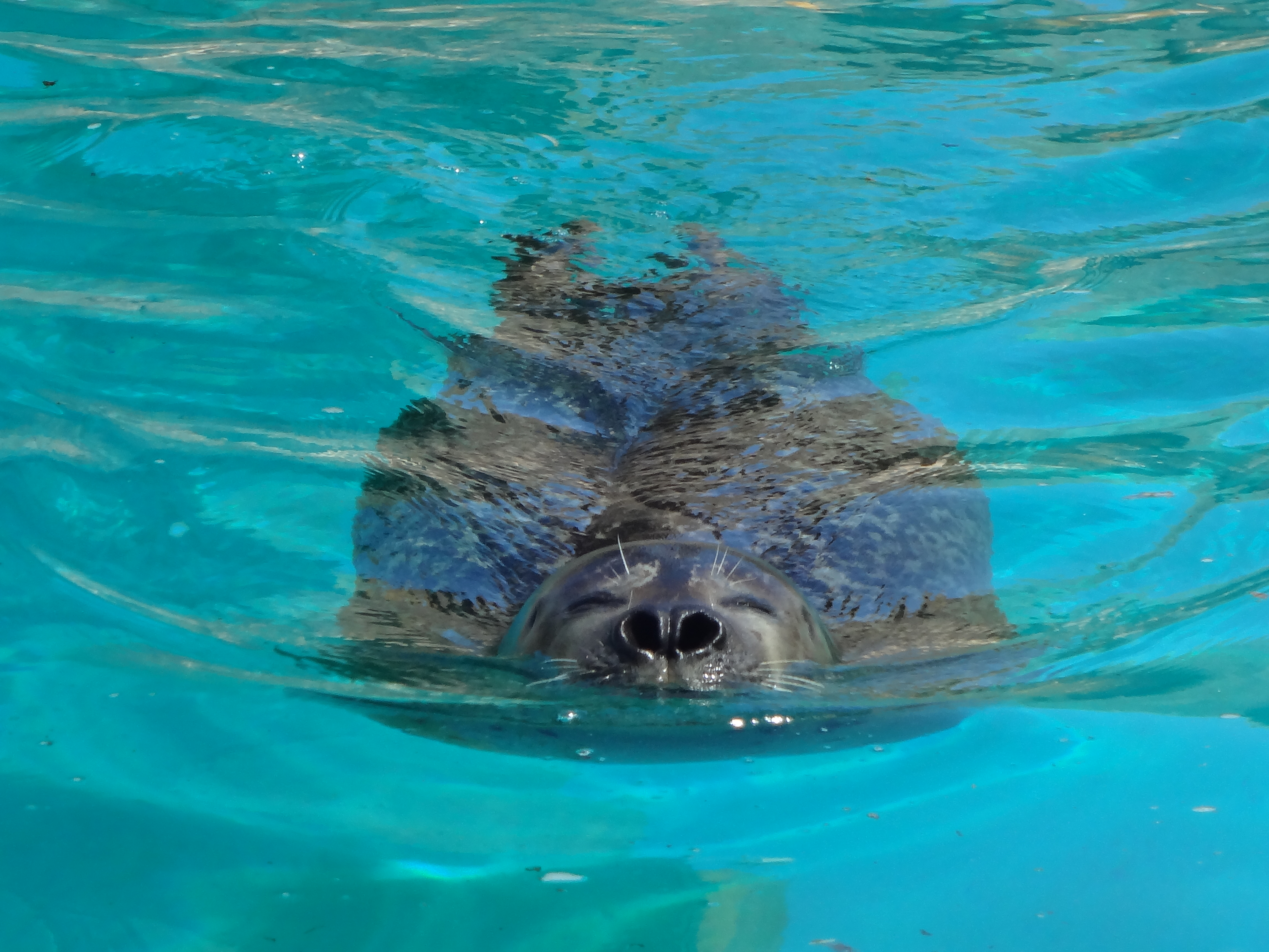 Faunia in Madrid, Spain